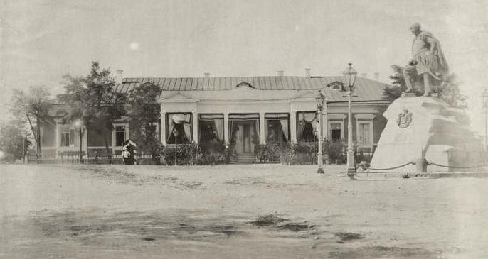 Monument to Prince Argutinsky.